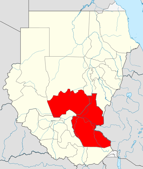 Map of Sudanese nomadic conflicts